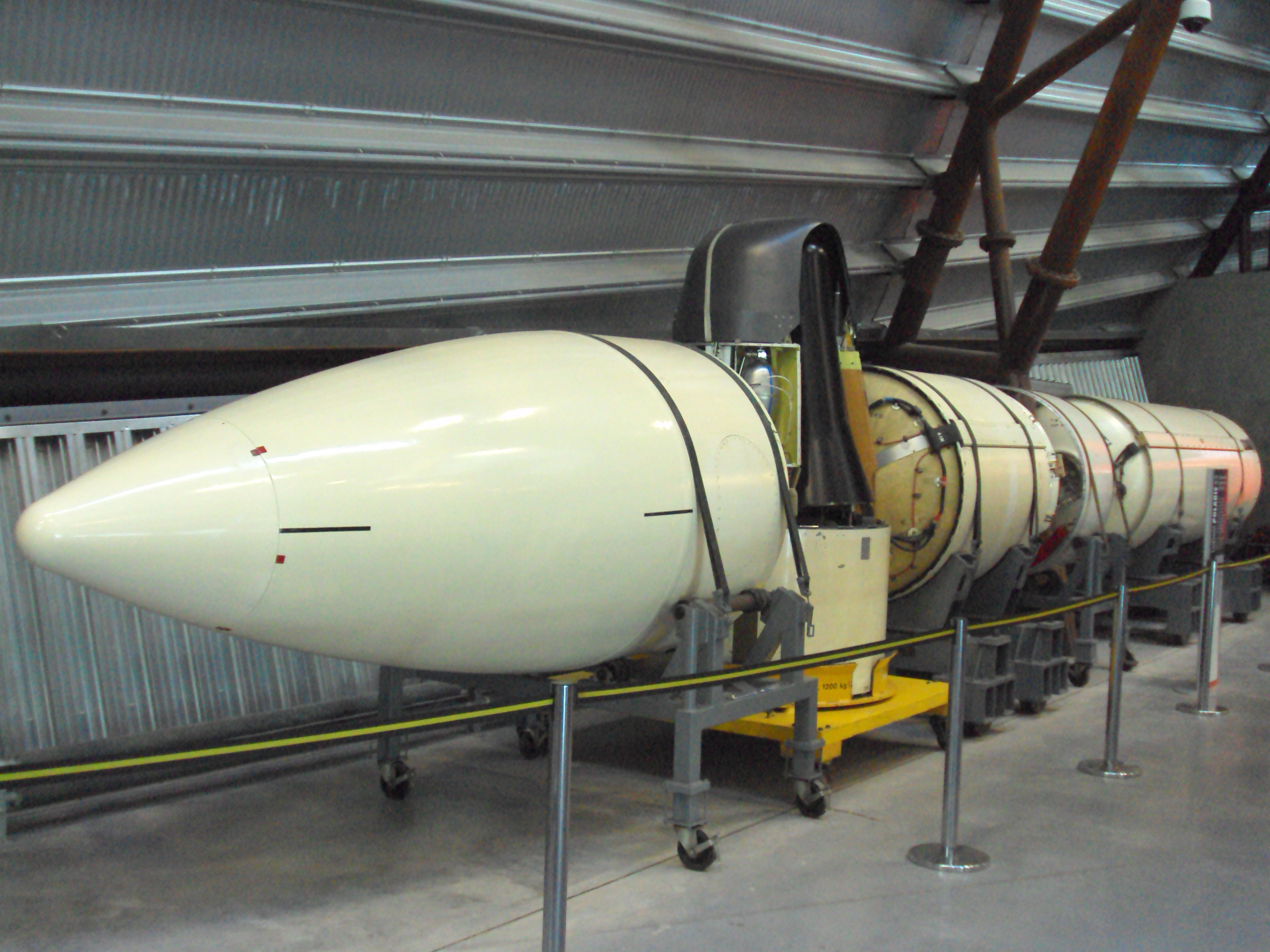 Photo of Polaris A3 missile taken at the RAF Museum Cosford, Shropshire, England.